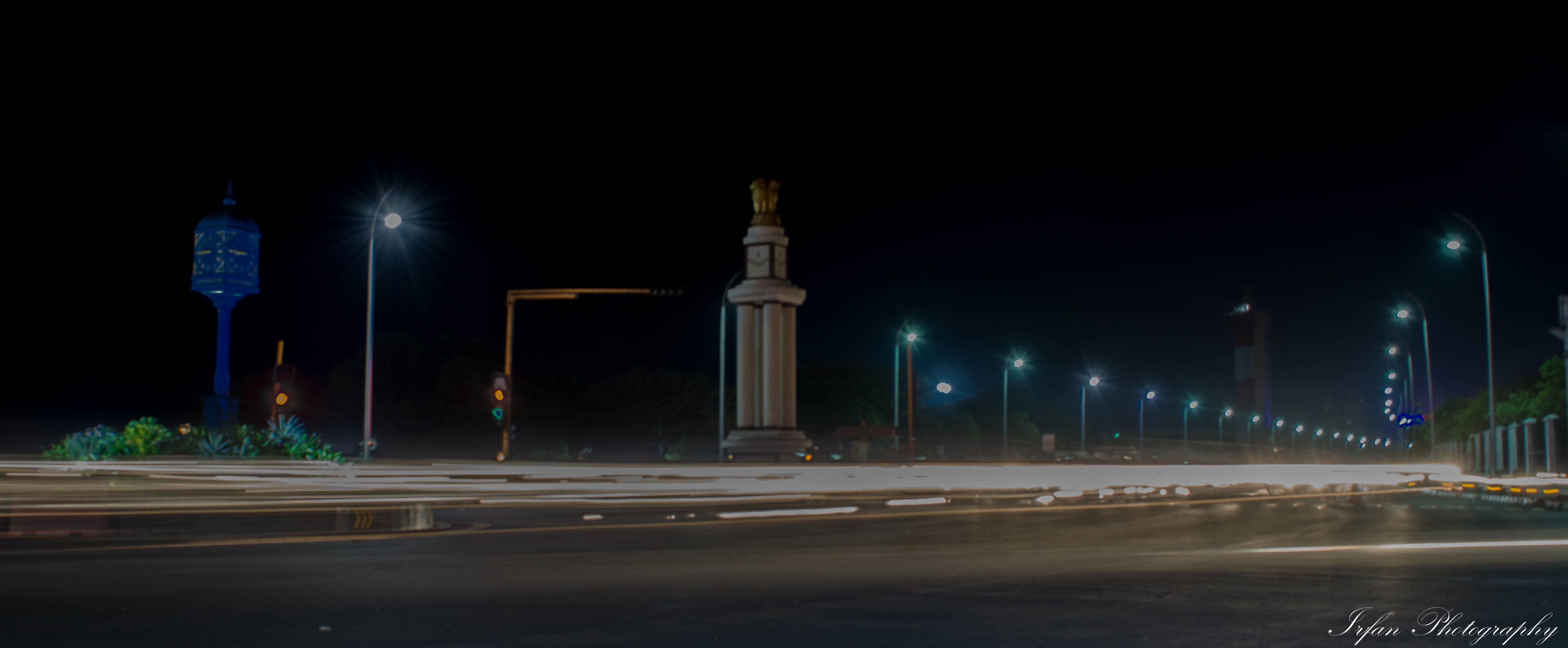 Marina beach signal clicked by Irfan Ahmed Photography